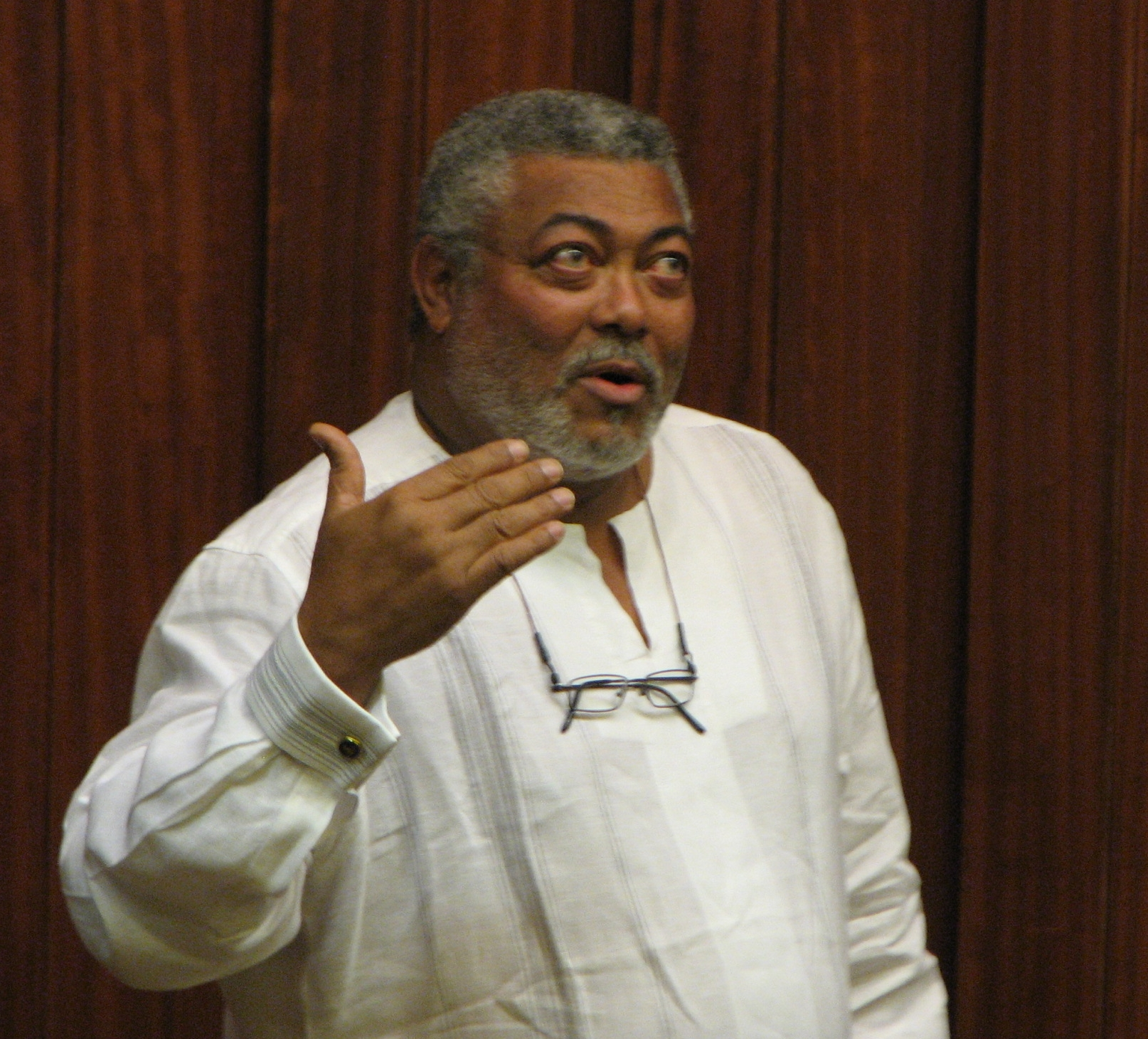 Former president of Ghana Jerry Rawlings, speaking at the Oxford Law Faculty.